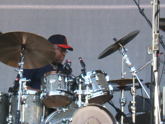 Mountain Jam 2009 - May 31, 2009 - Day 3 - The Allman Brothers Band Jai Johanny Johanson, nicknamed, "Jaimoe", the percussionist and drummer for the Allman Brothers band.. has no en.wikipedia photo, and part of a work group attempting to improve the articles on the band, it's members, and offshoots.